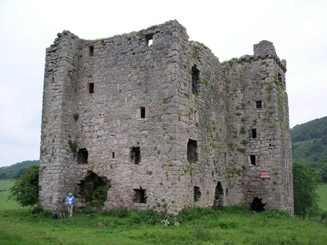 Arnside Tower from the south west